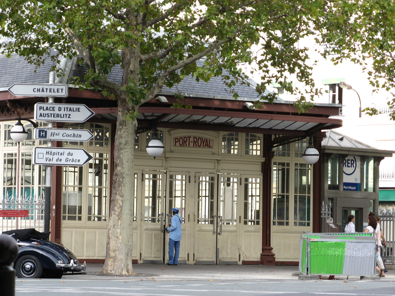 Port-Royal, RER B, Paris, France